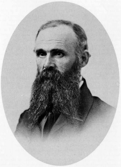 John Wolcott Phelps, Union Army general in the American Civil War, author, historian, and political activist.